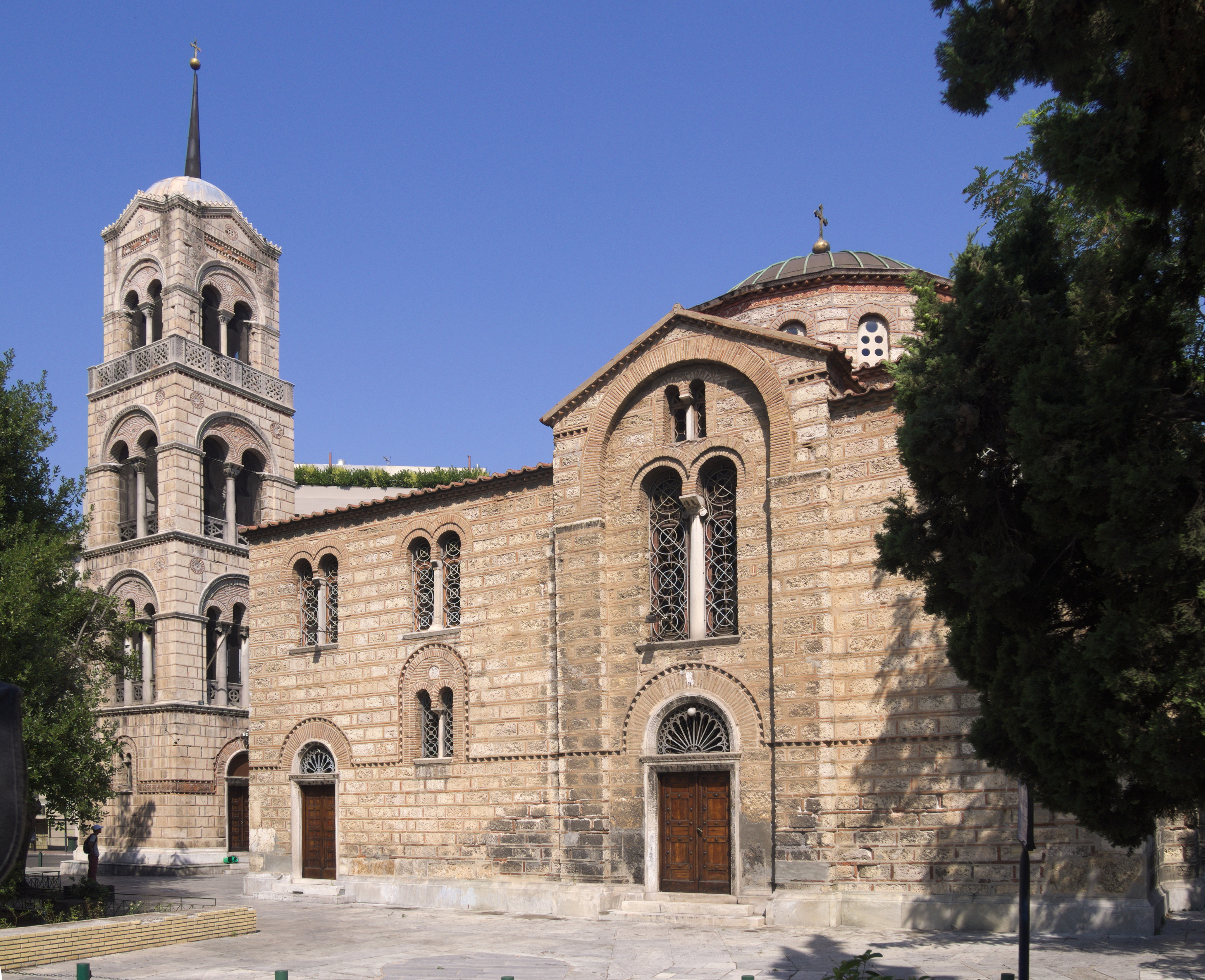 The Russian church of Athens, a renovated byzantine church.